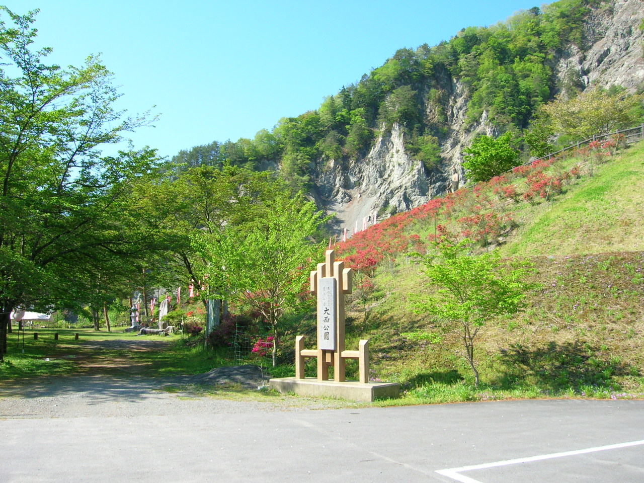 Ōnishi kōen. (Ōnishi Park.) Loc: Ōshika, Nagano Prefecture, Japan 大西公園。 撮影場所 長野県下伊那郡大鹿村